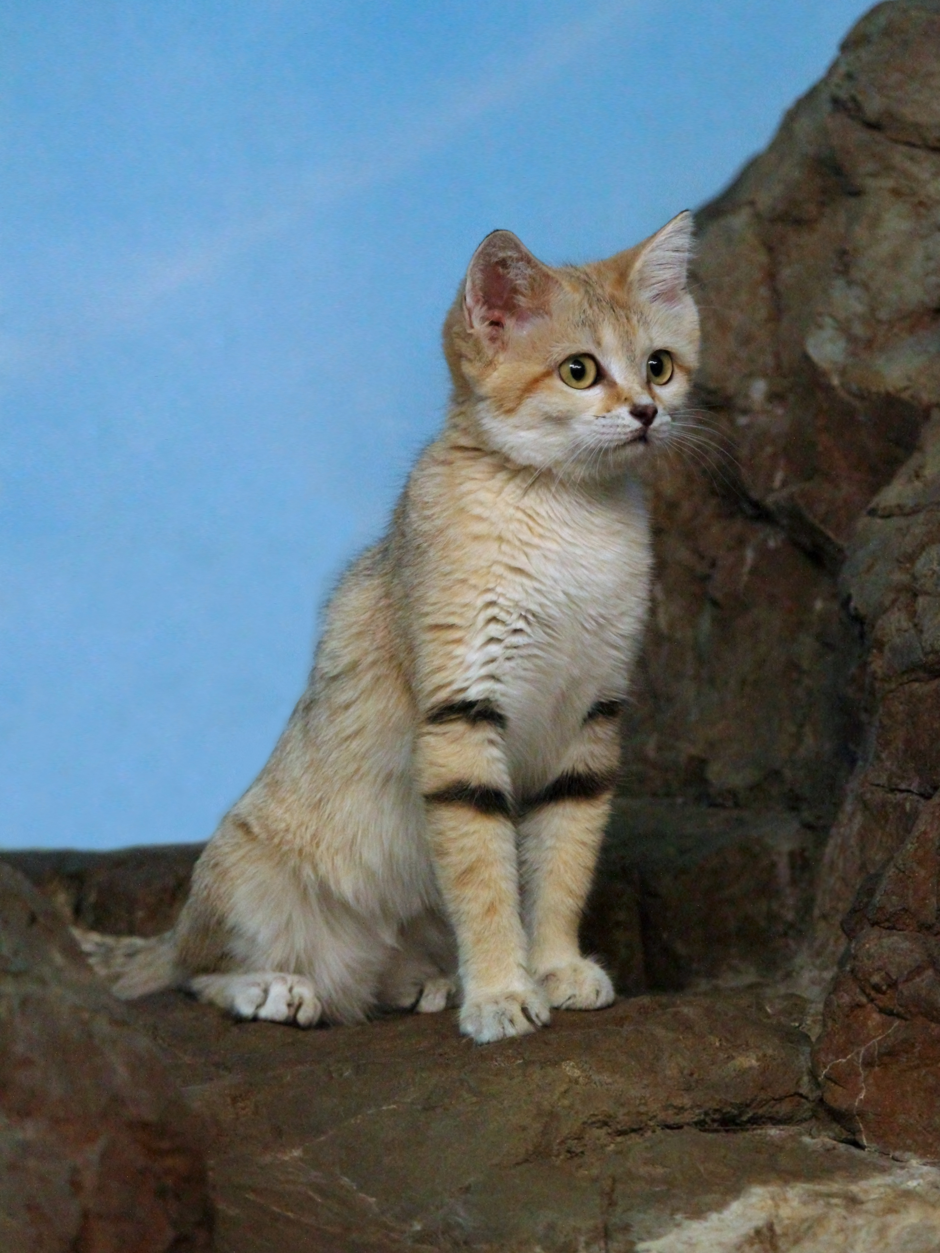 Sand cat - Felis margarita at the Cincinnati Zoo.